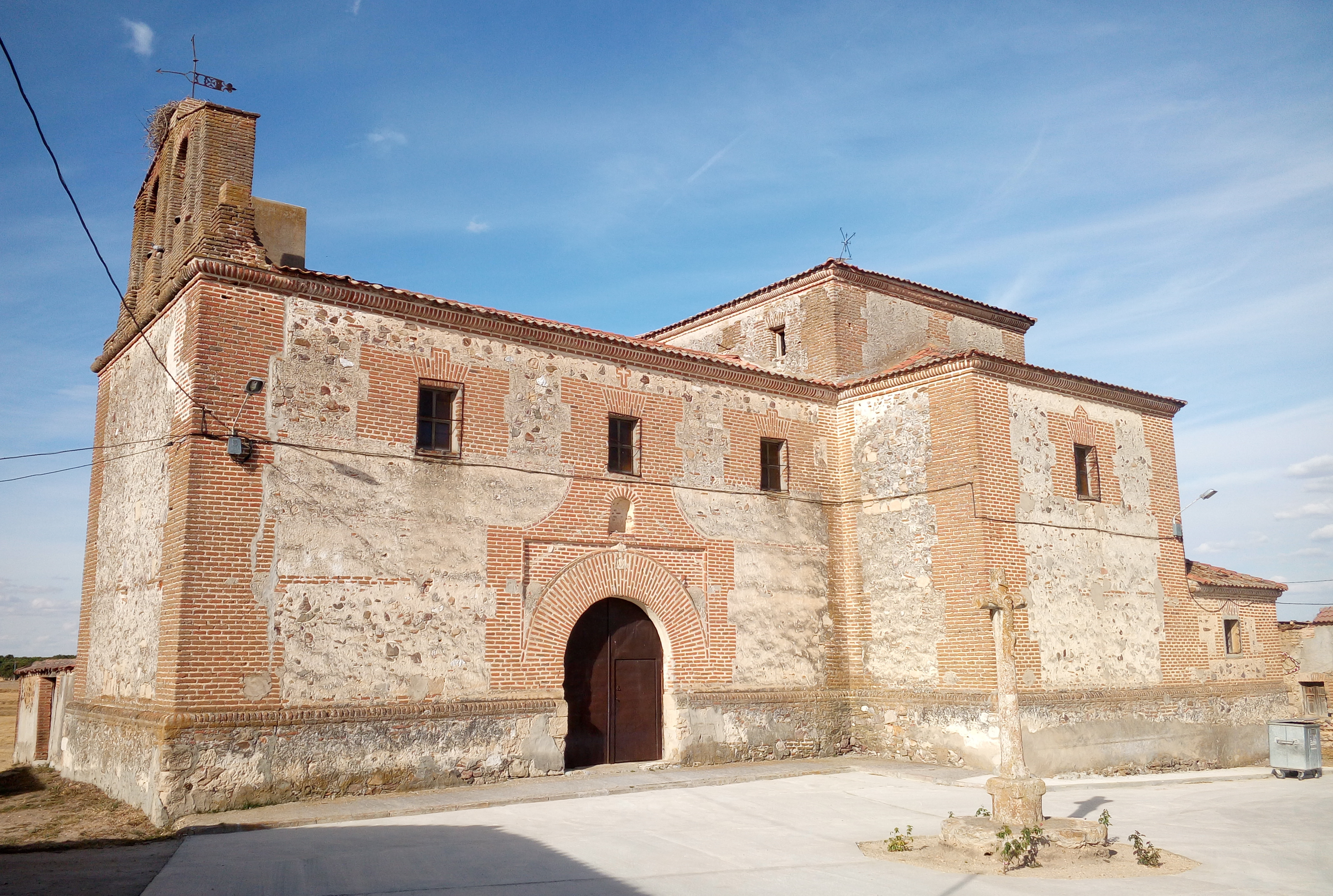 Church of St Martin of Tours, San Martín, San Martín y Mudrián, Segovia, Spain.